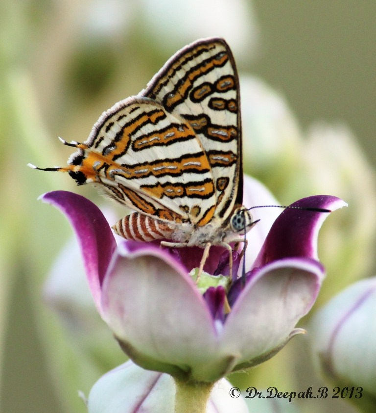 Common Silverline feeding on Calotropis flowers, Saketri, Chandigarh, India.